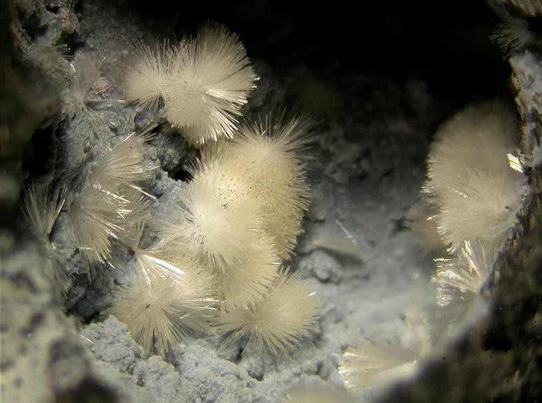 Ettringite Locality: Concordia smelter (slag locality), Eschweiler, Aachen, North Rhine-Westphalia, Germany Field of view 8 mm. Collected in april 2007. Specimen and photo Leon Hupperichs.